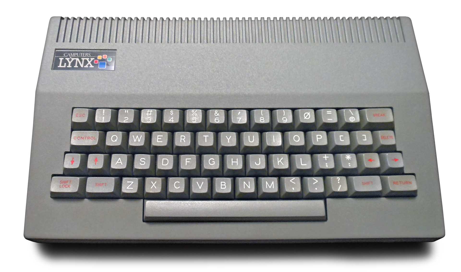 Camputers Lynx 48k personal computer